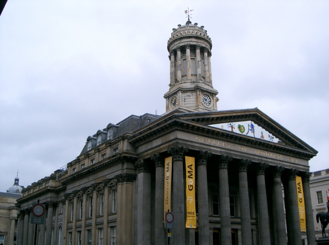 Glasgow Gallery of Modern Art